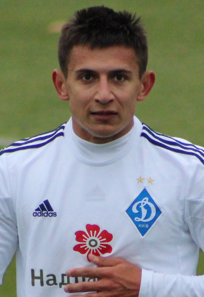 Dmytro Khlyobas